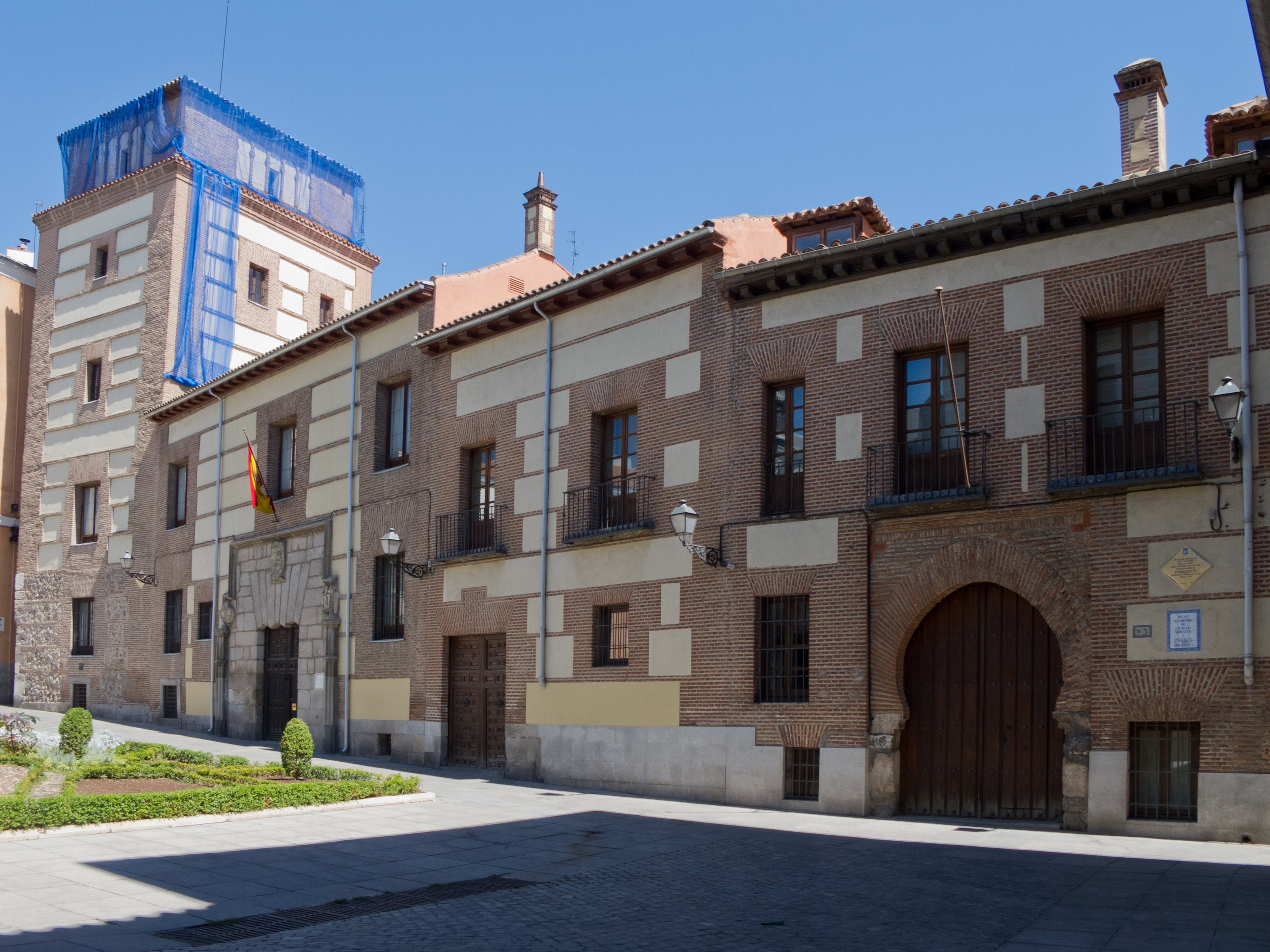 Casa de los Lujanes, Plaza de la Villa, Madrid, Spain.